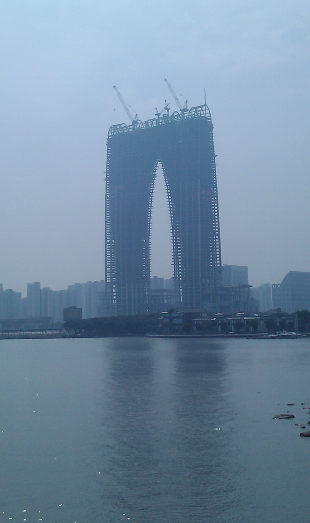 Gate of the Orient, October 2012